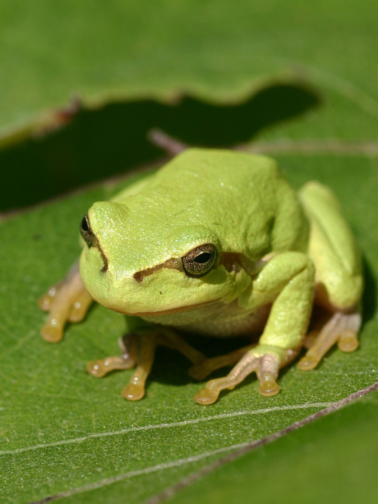 European tree forg (Hyla arborea). Photograped near Gruberau (Lower Austria).